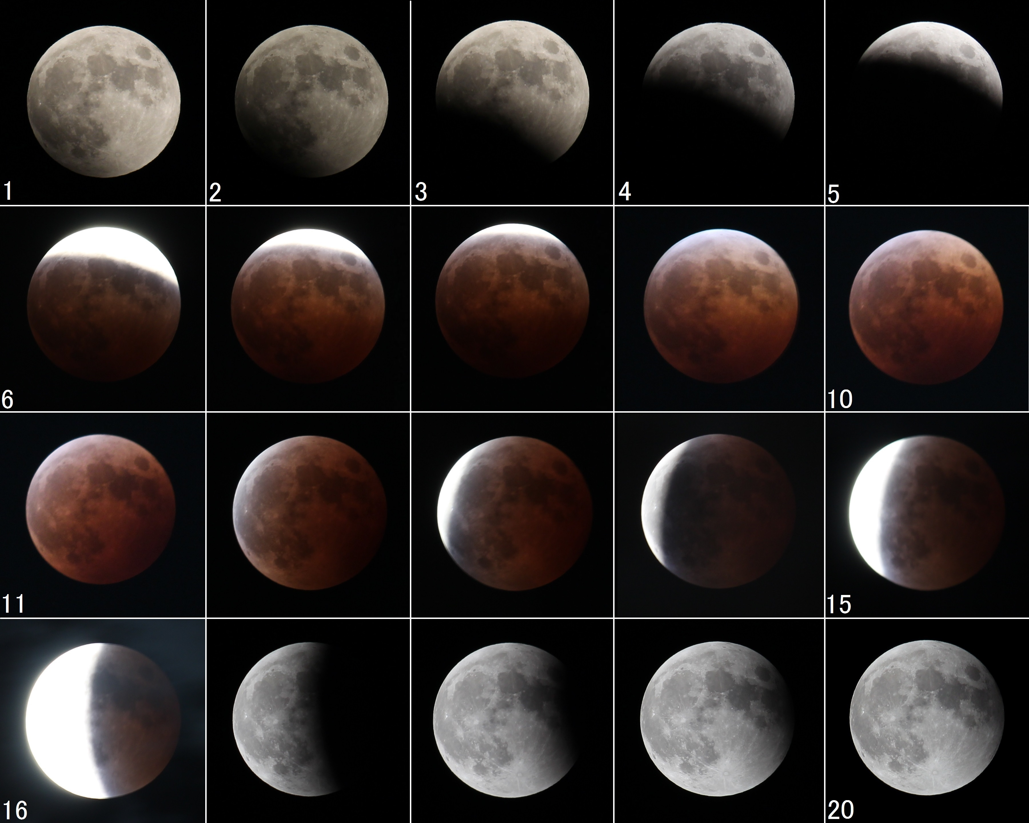 Lunar eclipse on October 8, 2014, in Aichi prefecture Japan.